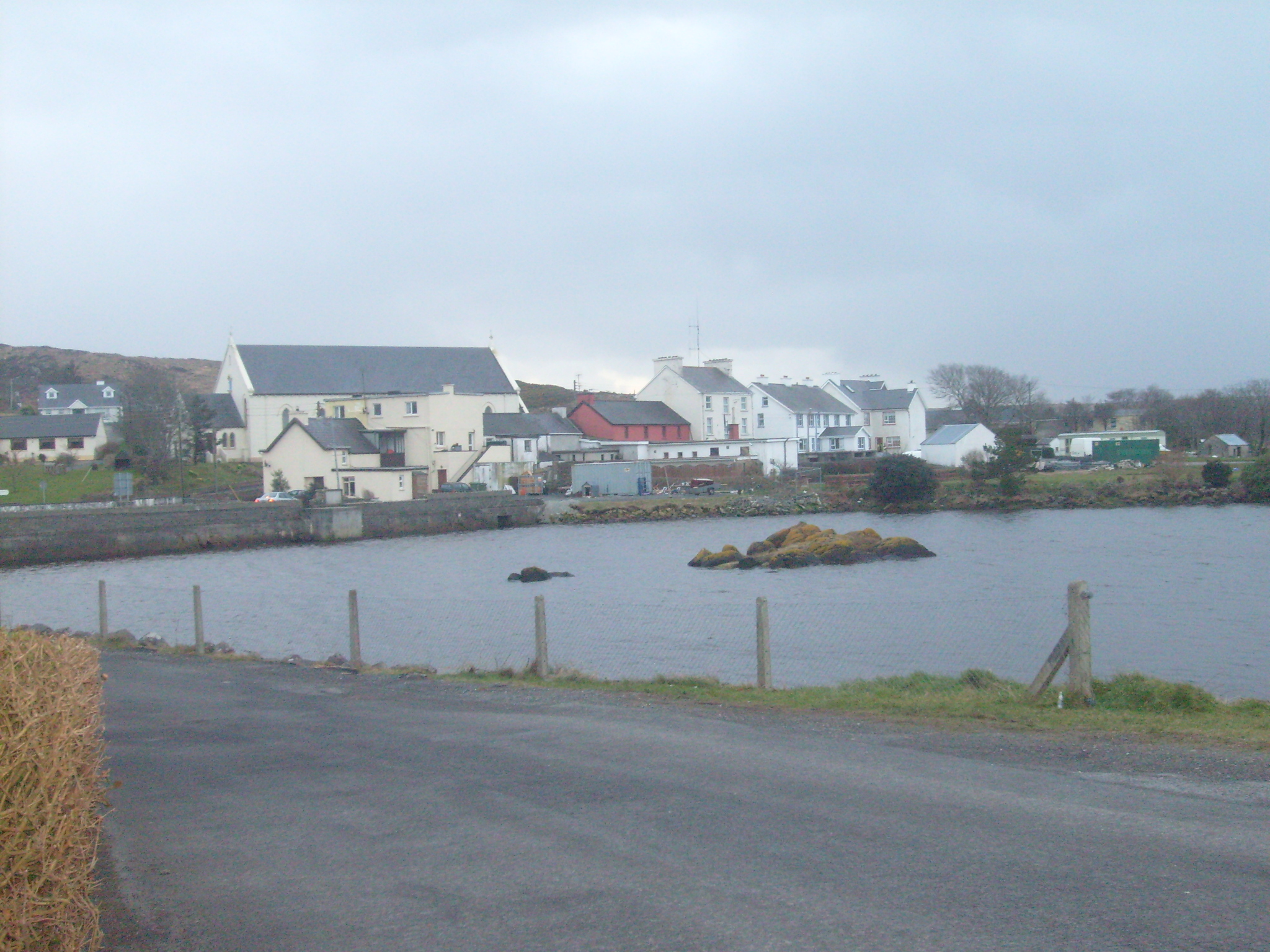 View of Annagry and the lake